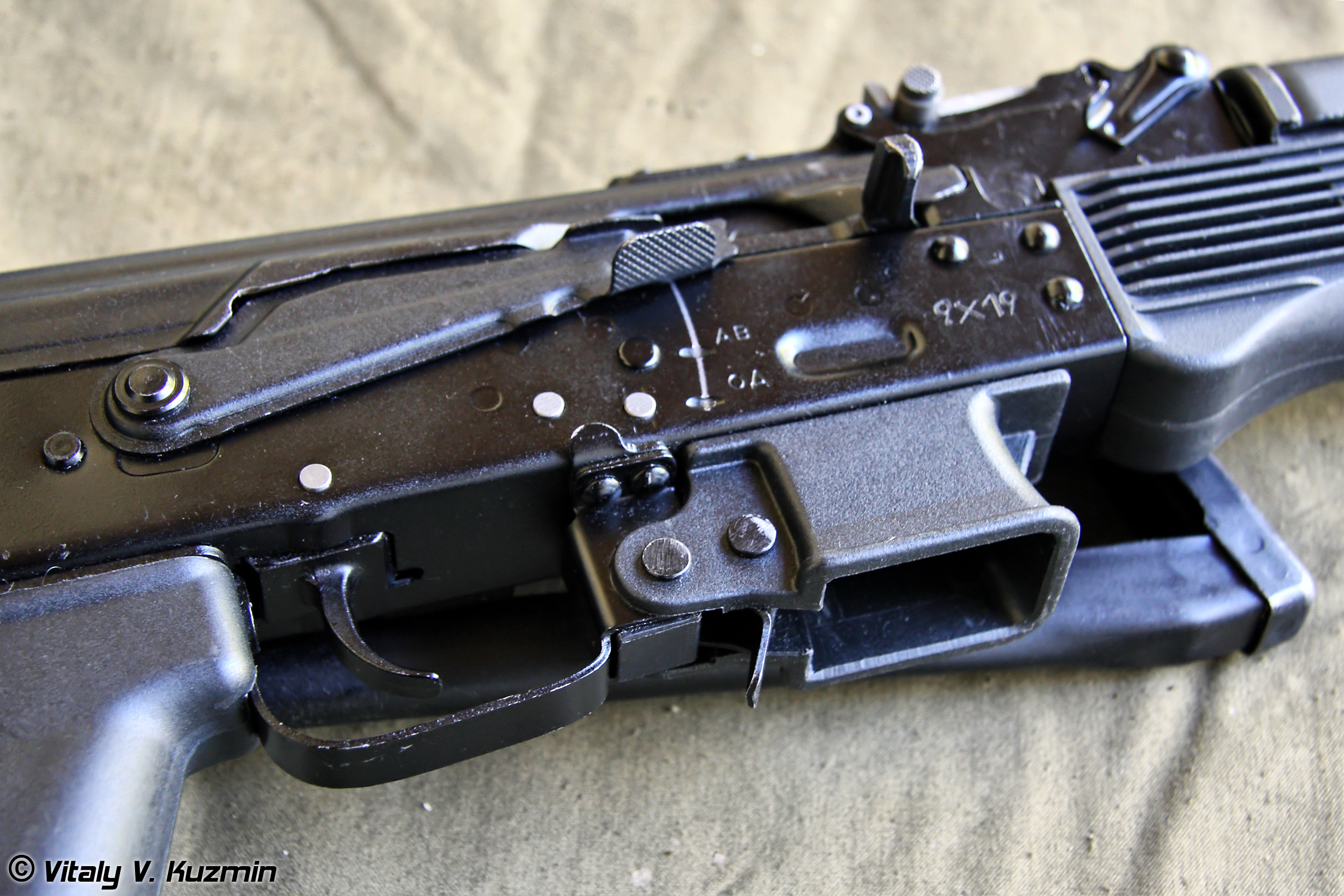 PP-19-01 Vityaz-SN submachine gun - OSN Saturn